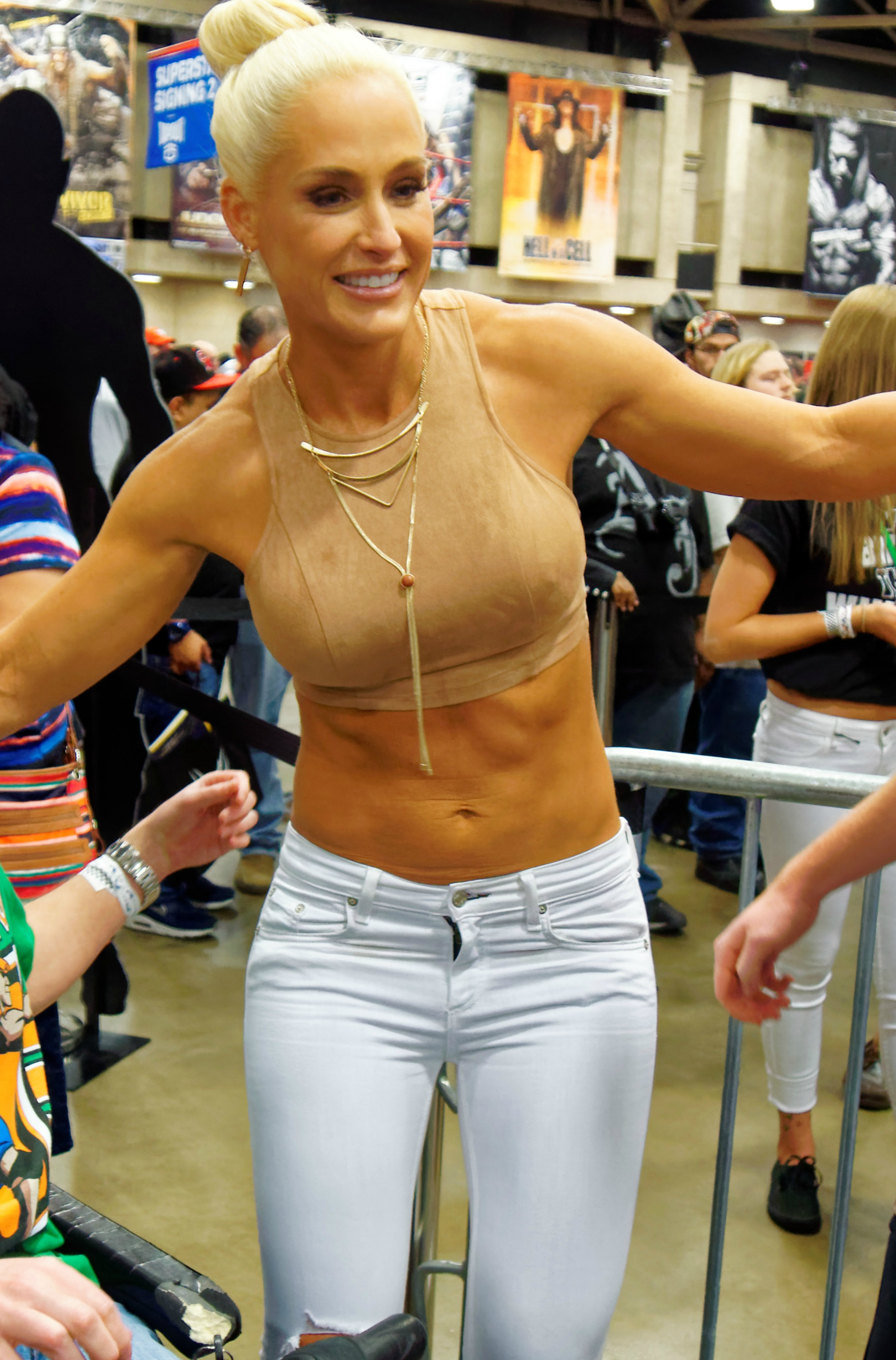 Michelle McCool during the WrestleMania 32 Axxess in April 2, 2016.